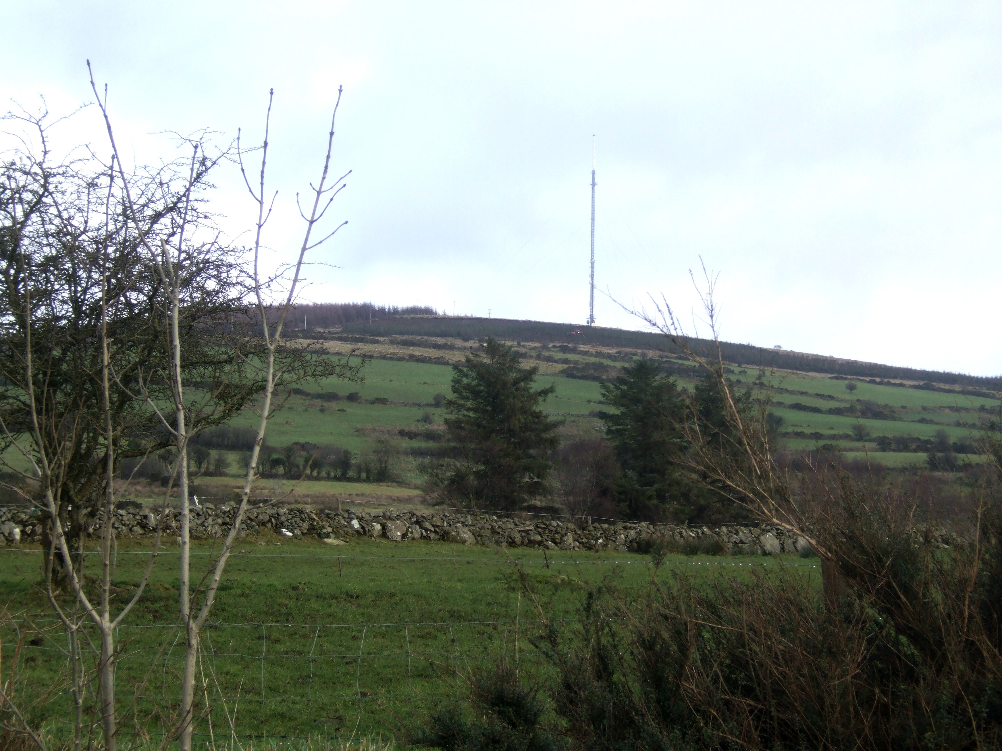 View of the hill from the third class road that links the villages of Ballinalee and Drumlish.